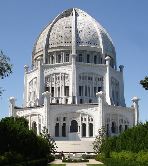 Baha'i House of Worship in Willmette, Illinois